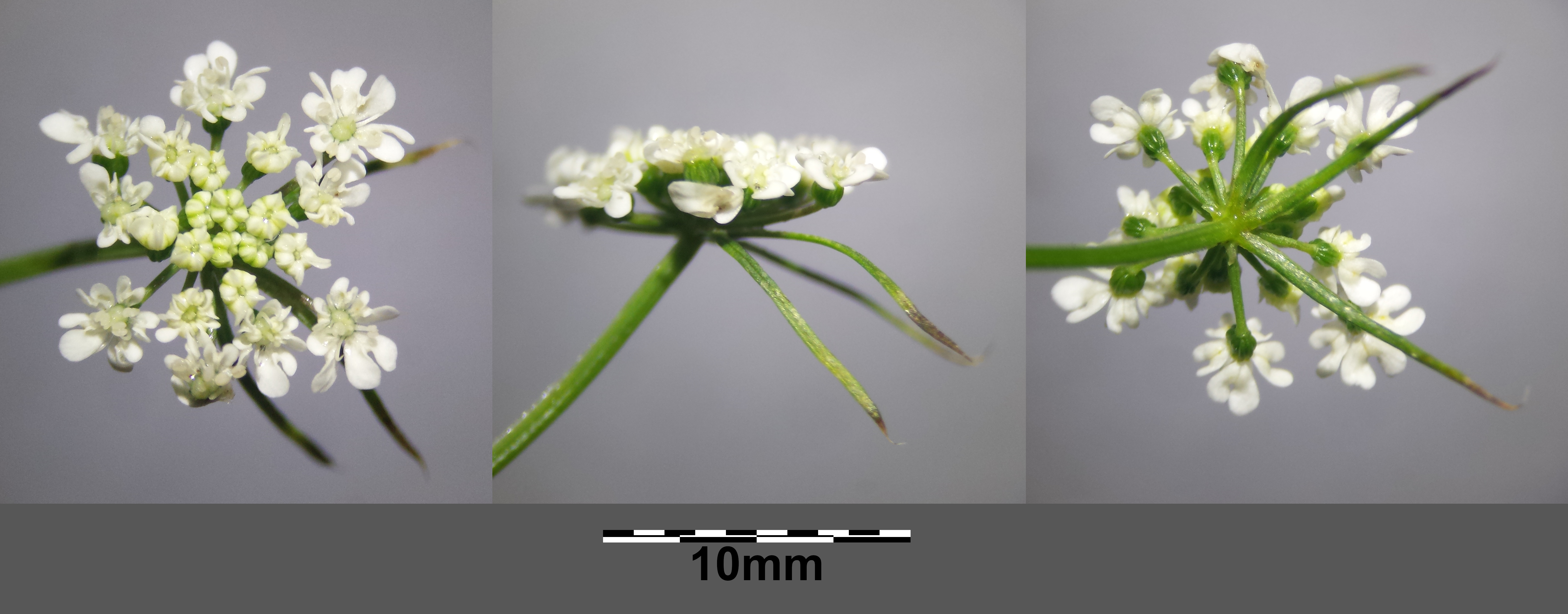 Umbellet Taxonym: Aethusa cynapium subsp. cynapium ss Fischer et al. EfÖLS 2008 ISBN 978-3-85474-187-9 Location: Wunderberg next to Nursch, district Korneuburg, Lower Austria - ca. 280 m a.s.l. Habitat: field